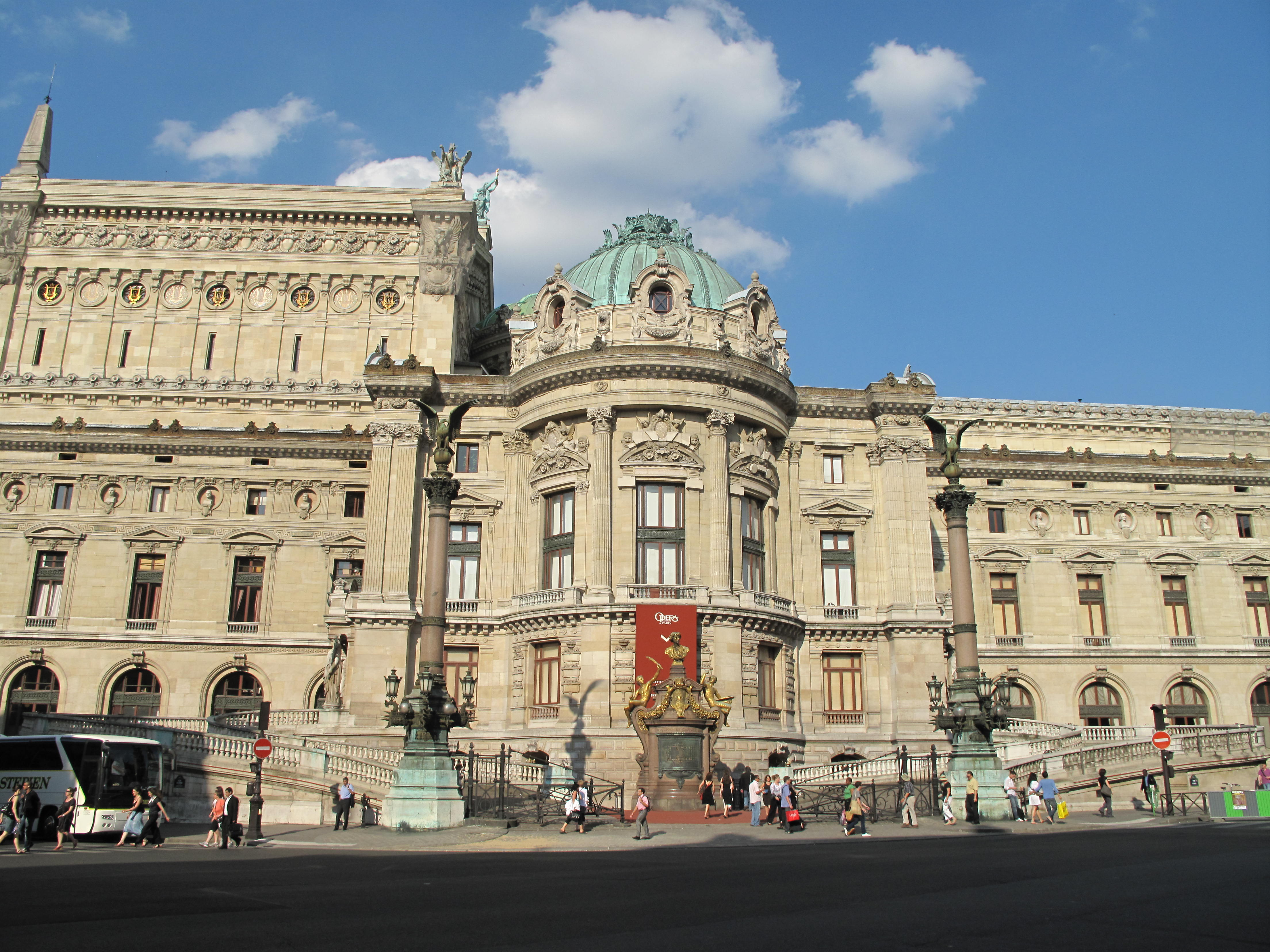 The pavilion of the emperor on the west side of the Opera Garnier, Paris 9th arr.